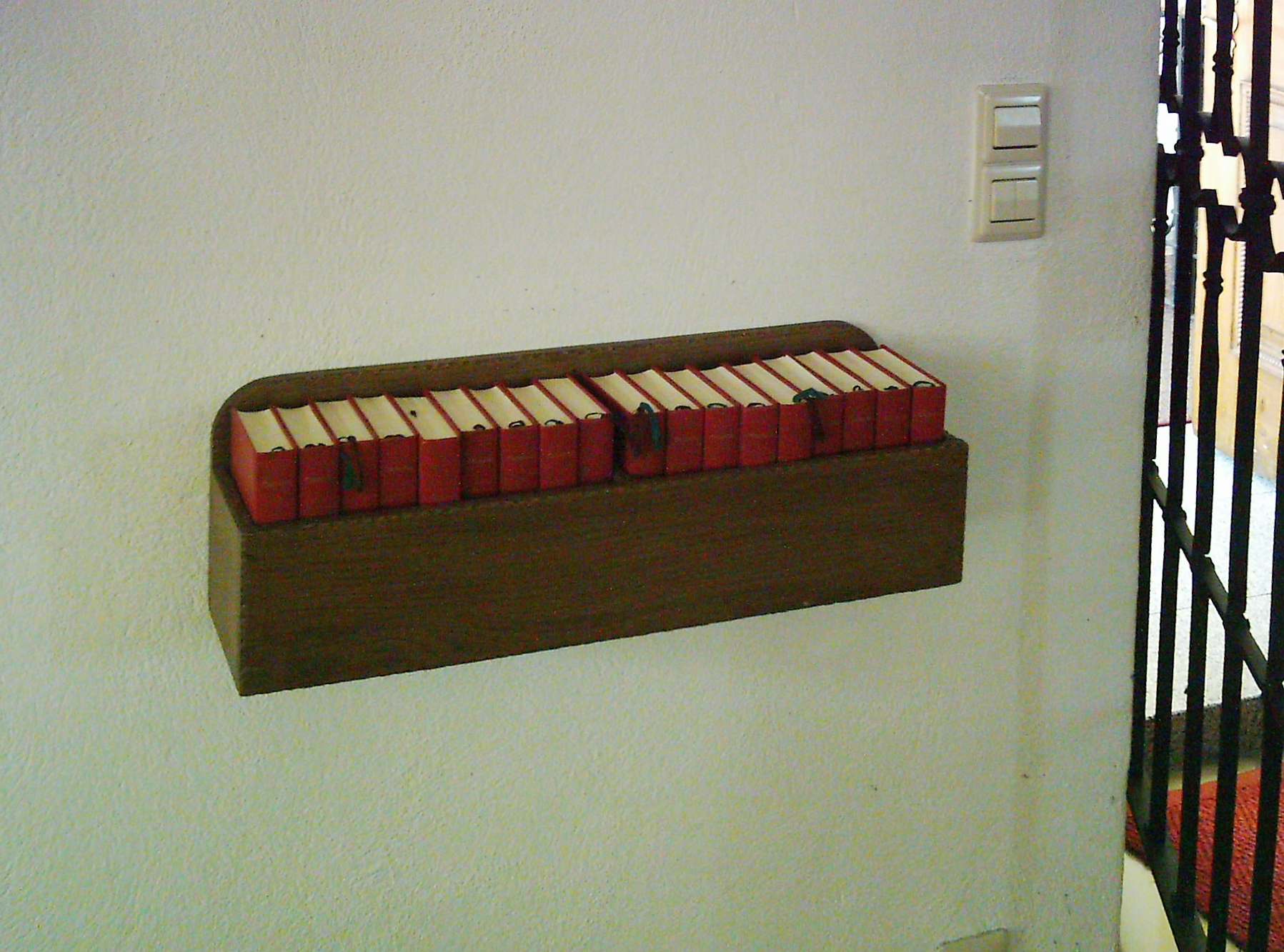 Hymnals Gotteslob at the entrance of a German Roman Catholic church